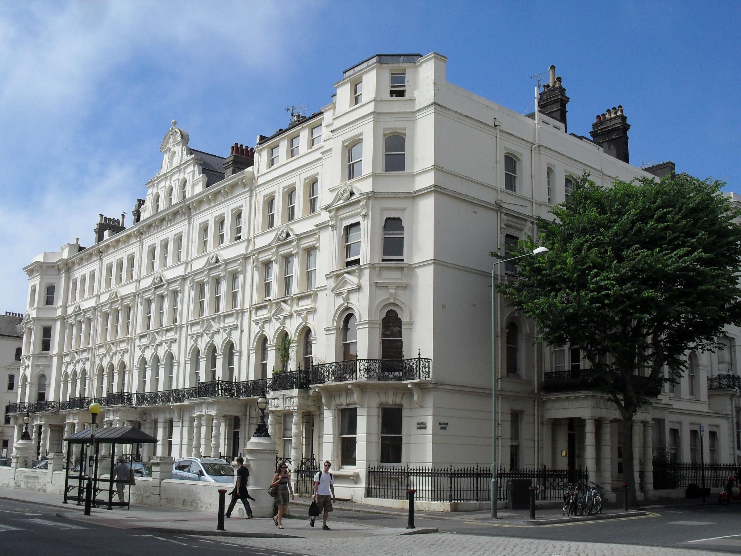 21–31 Palmeira Mansions, Church Road, Hove, City of Brighton and Hove, England. Built in 1883-84 to the design of H.J. Lanchester. Listed at Grade II by English Heritage (NHLE Code 1187549)